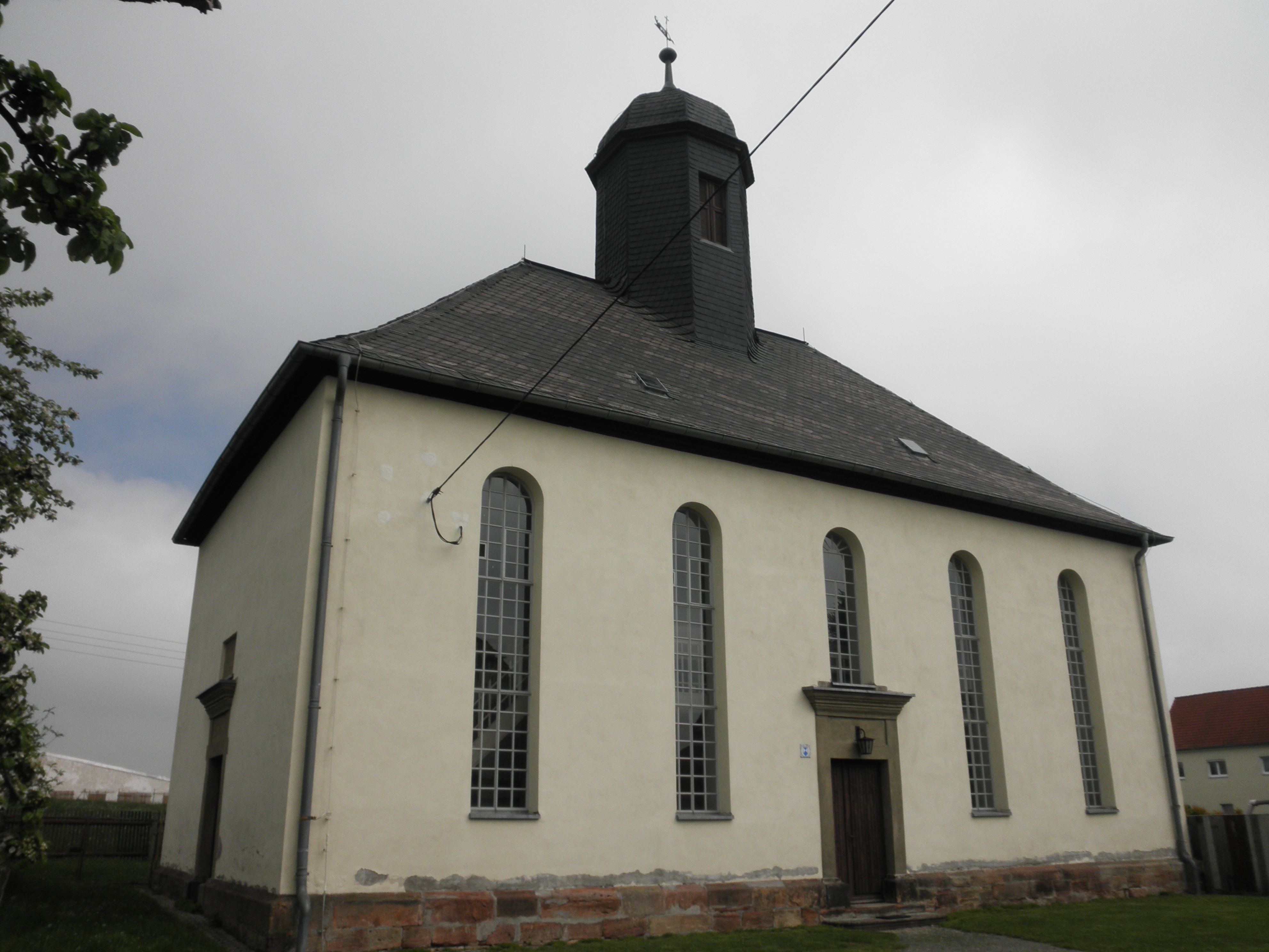 Church in Raitzhain in Thuringia